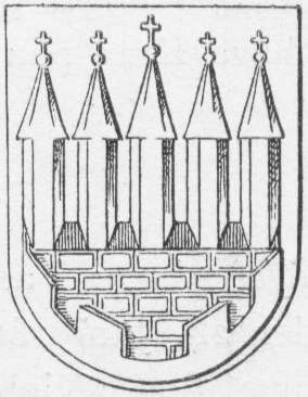 Coat of arms of Kalundborg, a chartered town in Denmark. Illustration from the article Om danske By- og Herredsvaaben written by Anders Thiset and published in Tidsskrift for Kunstindustri 1893-1894.